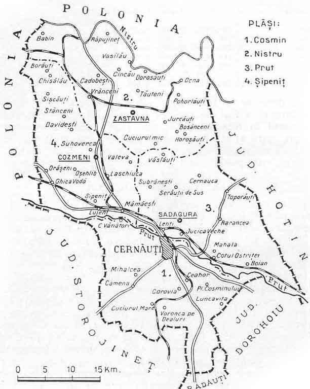 Map of Cernăuți interwar county, Kingdom of Romania (1938).